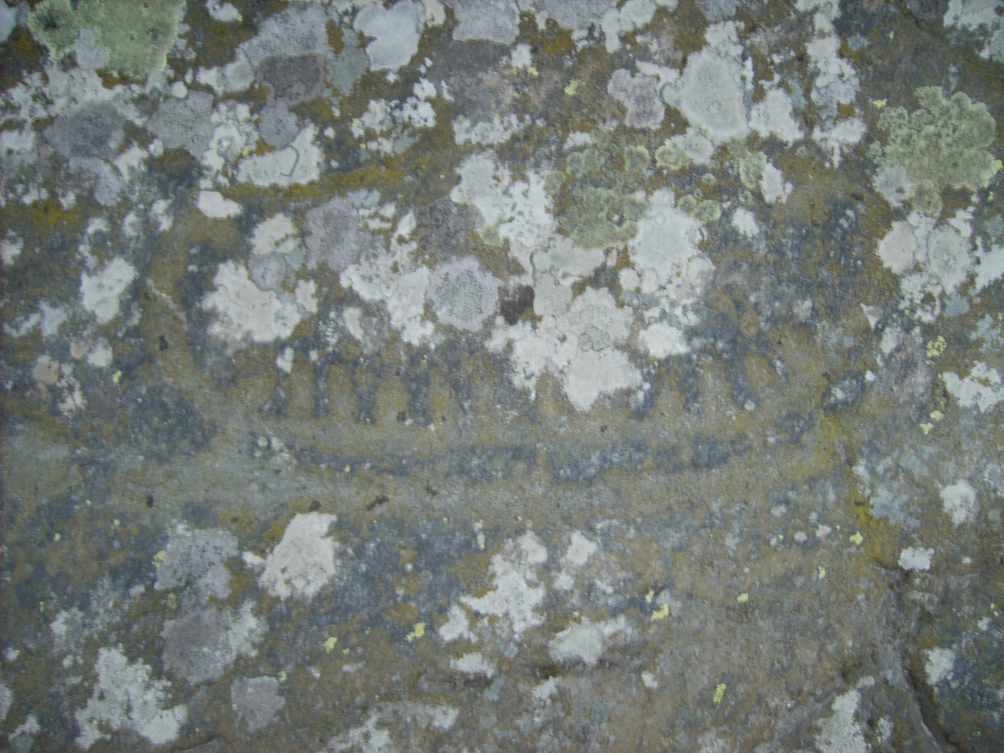 Photo by Harri Blomberg.